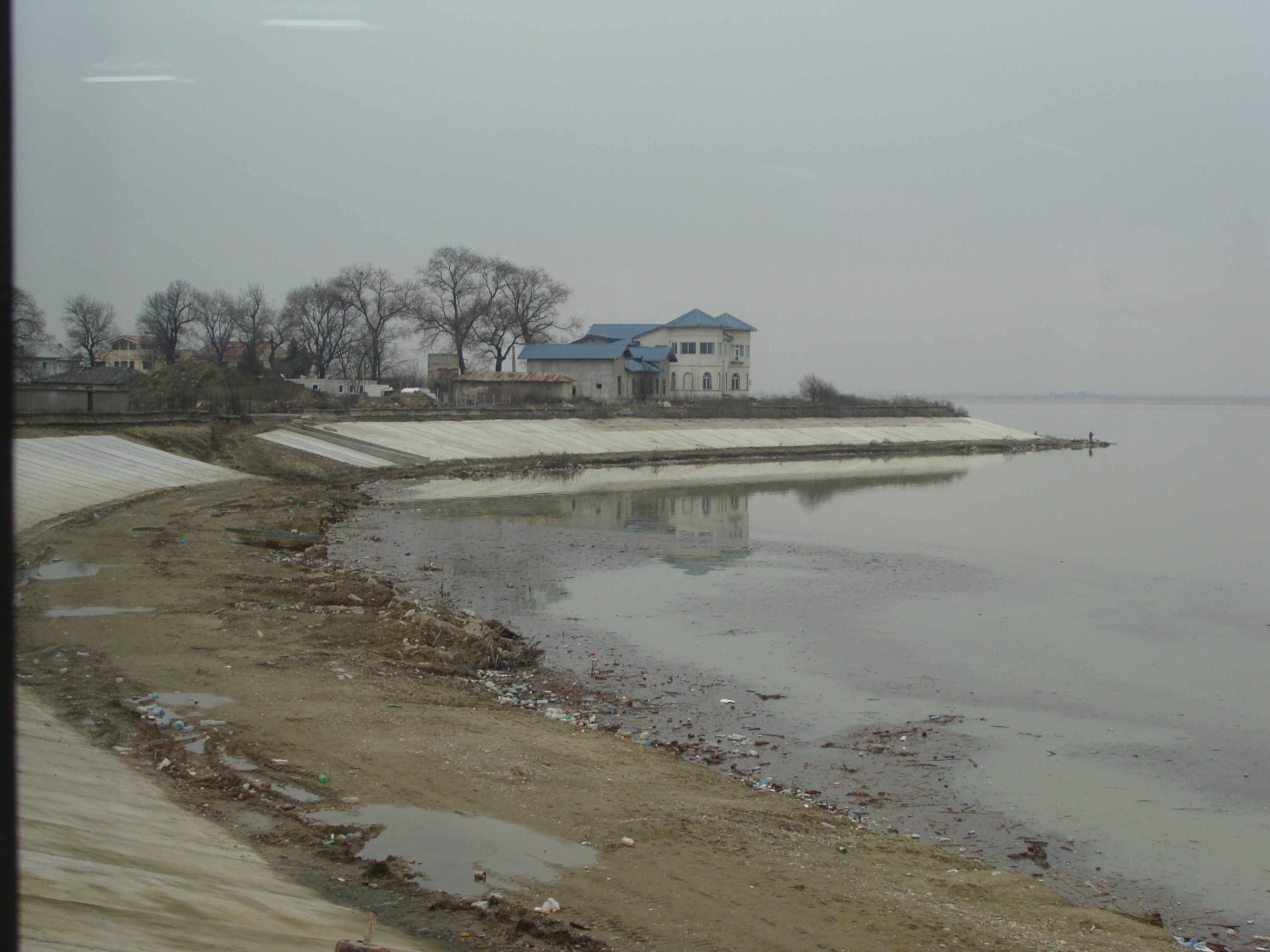 Mihăileşti-Cornetu Lake